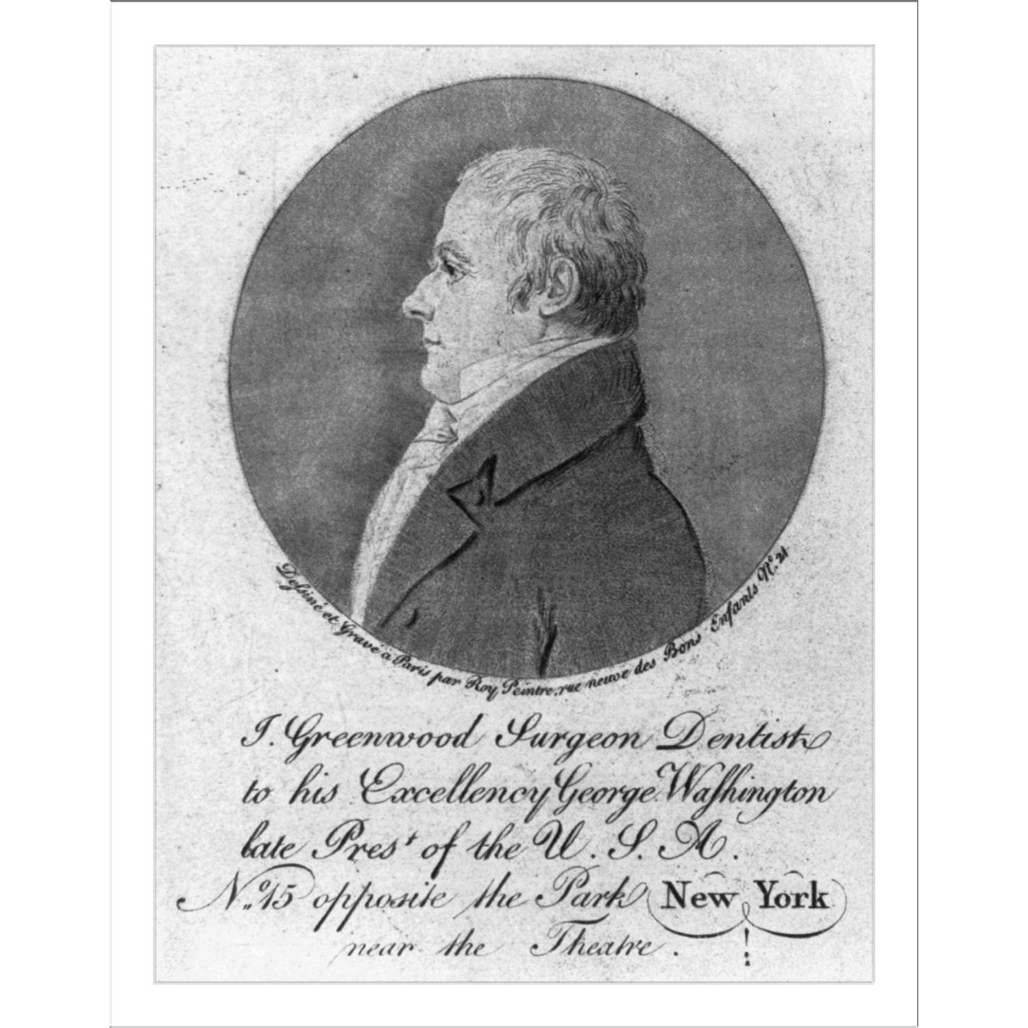 Caption: "J. Greenwood, Surgeon Dentist to his Excellency George Washington, late Prest of the U.S.A. No. 15 opposite the Park, near the Theatre, New York. Define et Grave a Paris par Roy Peintre, rue neuve des Bons Enfants, No. 21." Print of engraving published in the American Journal of Dental Science, 1839.[1]